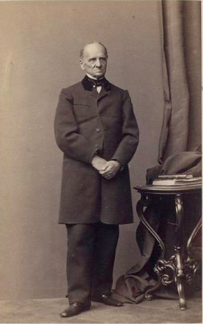 Wacław Pelikan